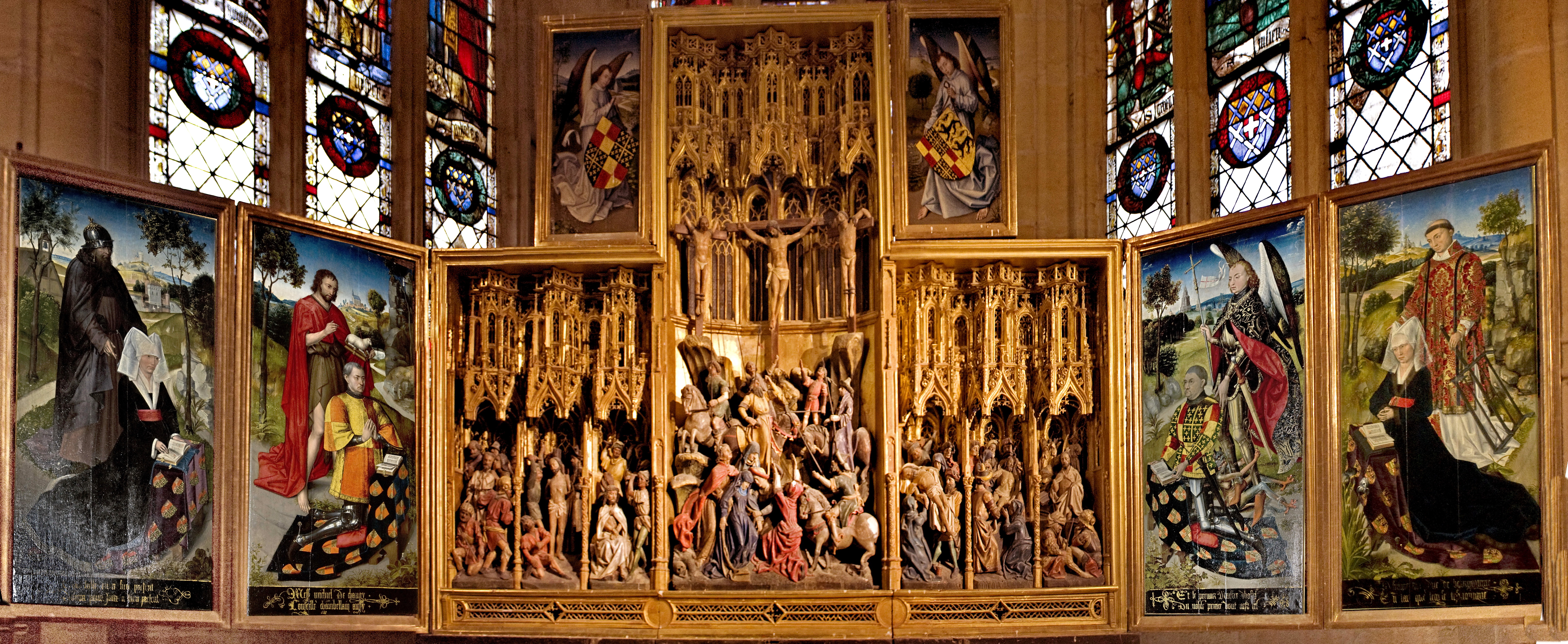 Altarpiece of the Passion by the Master of Ambierle who could be Rogier van der Weyden or his pupil Vrancke van der Stockt.